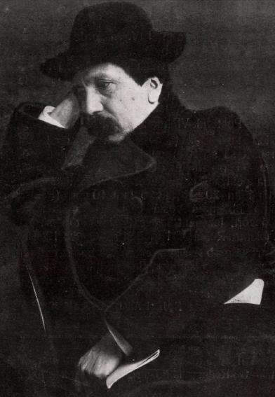 Photograph of the Romanian poet Alexandru Vlahuţă, originally published in Luceaferul magazine, January 15, 1905.